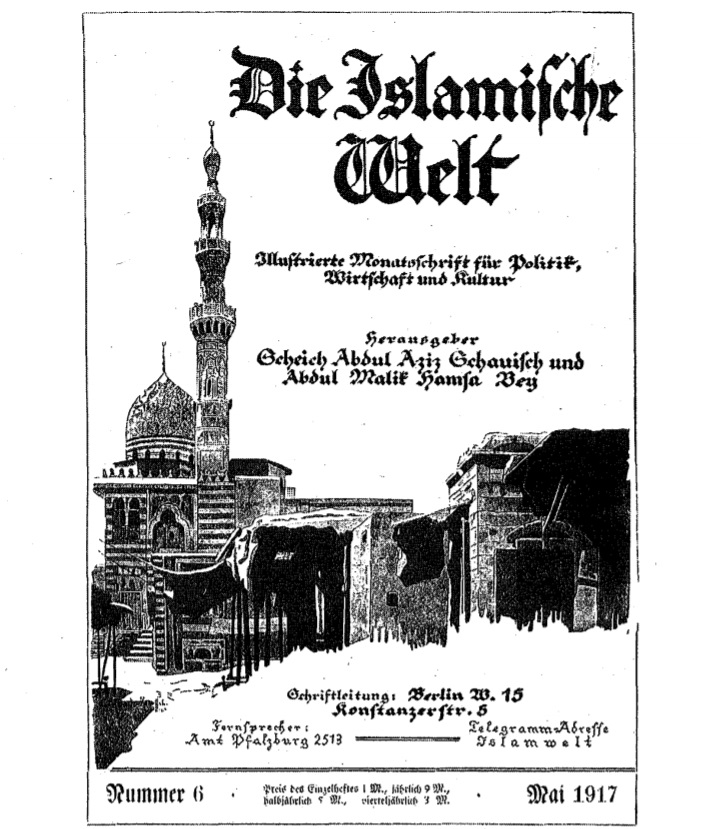 Die Islamische welt Mai 1917 Die Islamische Welt Illustrierte Monatsschrift für Politik, Wirtschaft und Kultur Herausgeber: Abdul Aziz Schauisch und Abdul Malik Hamsa Verantw. Redakteur bzw. Schriftleiter: Rudolf Rotheit Redaktion: Berlin-Wilmersdorf (W 15), Konstanzer Str. 5 (1,1916/17,1-10 und 2,1918,1-6/7) bzw. Konstanzer Str. 10 (1,1916/17,11 und 12) Verlag: Druckerei: Paß & Garleb G.m.b.H. Berlin W 57, Bülowstr. 66 (1,1916/17-2,1918,5) Reichsdruckerei Berlin (2,1918,6/7) Erscheinunpweise: monatlich Bezugspreis: 1,- bzw. 2,- Mark pro Nummer 3,- Mark vierteljährlich 5,- Mark halbjährlich 9,- Mark jährlich Sprache: deutsch, teilweise türkisch (2,1918,6/7) Umfang: 60 bis 64 Seiten pro Nummer Illustriert: ja Standort, Signatur, Bestand: la: 4° Um '1376/5 (gebunden in 2 Bänden) J,1916/17,1-12; 2,1918,1-6/7 101: ZC 4030 (gebunden in 2 Bänden) J,1916/17,1-12; 2,1918,1-6/7